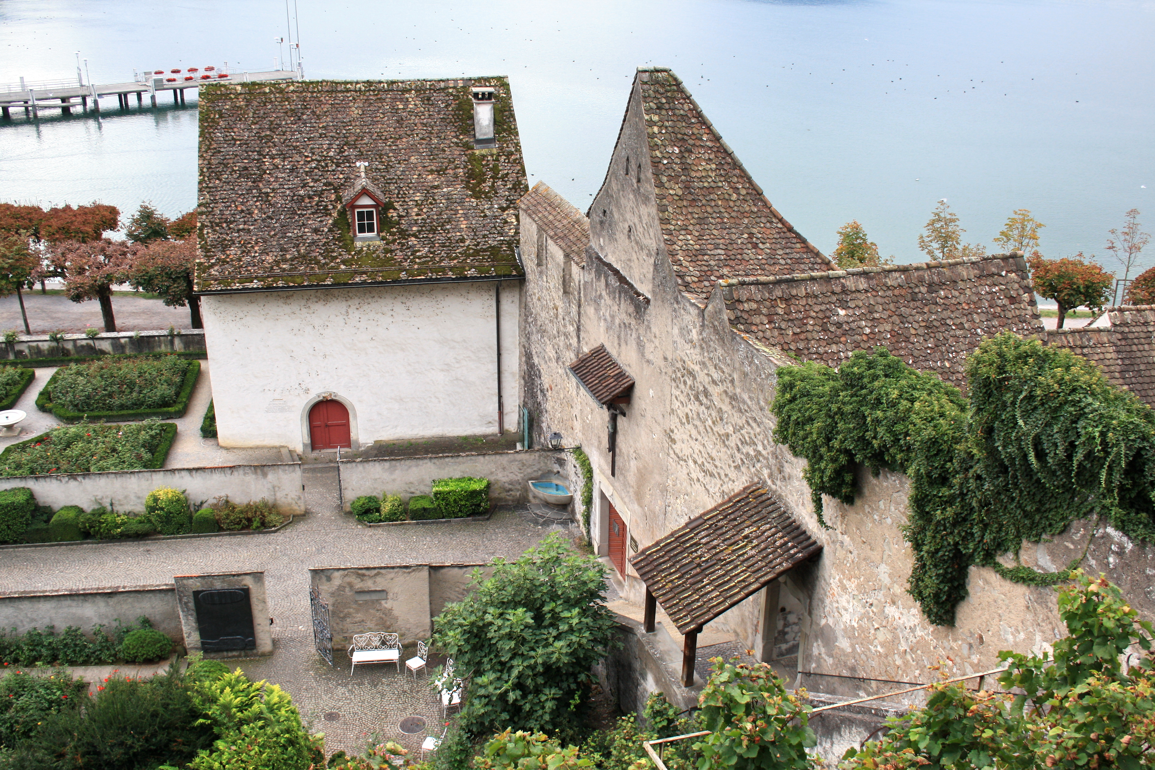 Rapperswil (SG) : Einsiedlerhaus as seen from Lindenhof.